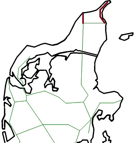 Map of railways in Northern Jutland in Denmark with the private railway compagny Nordjyske Jernbaner in brown.